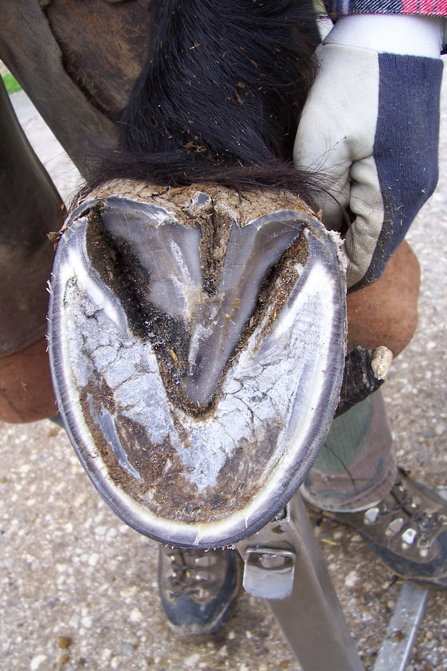 Horse hoof (hind), bottom view, after "wild-horse trim". All structures are visible (pigmented walls, water line, white line, sole, bars, frog, bulbs).